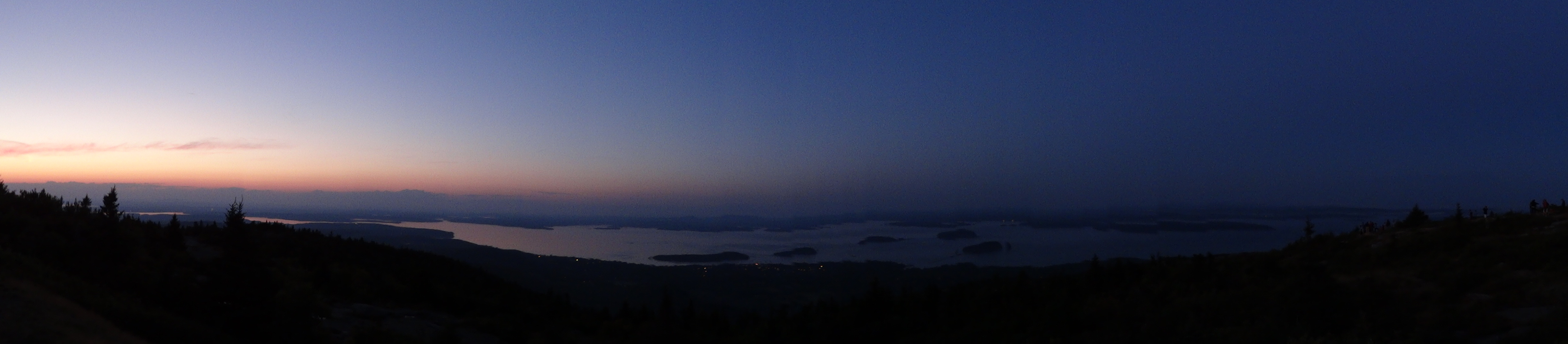 Acadia National Park, Cadillac Mountain